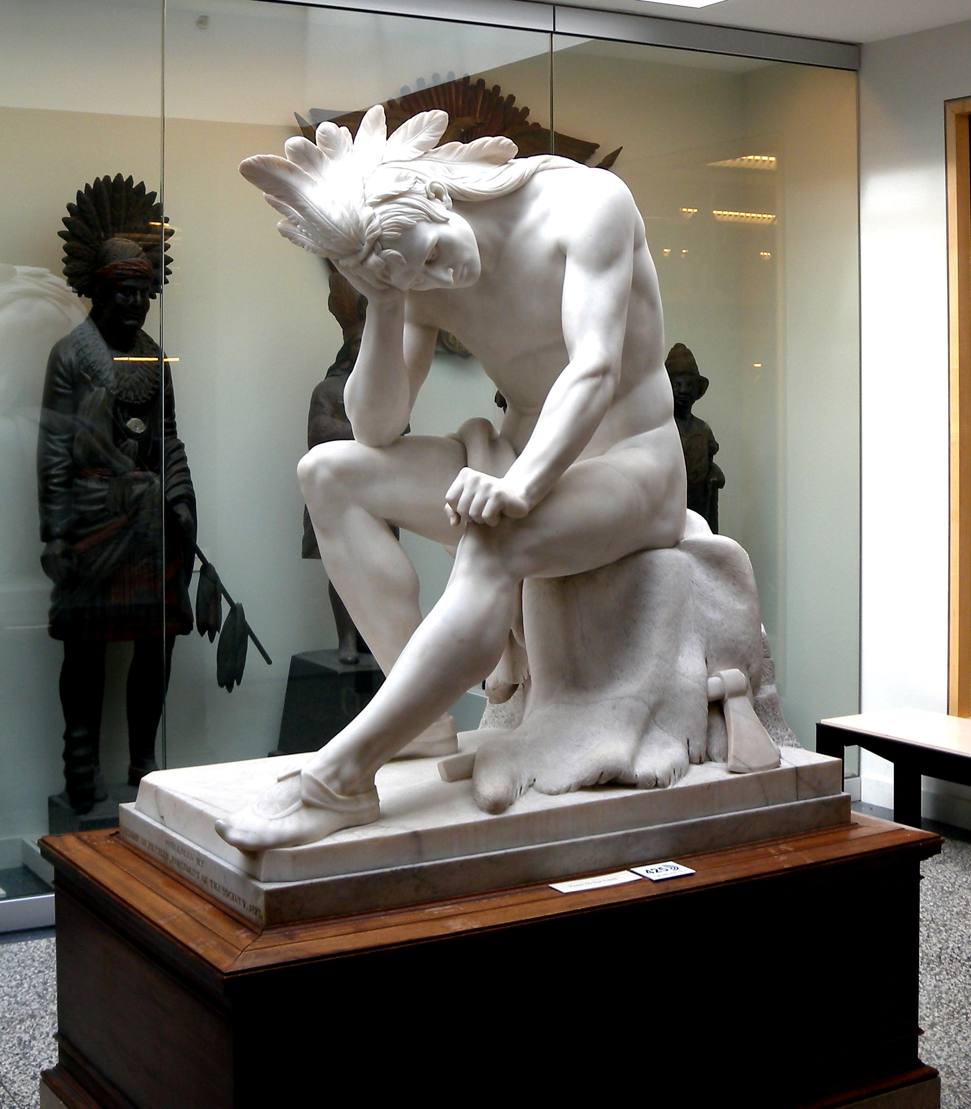 Dying Indian Chief Contemplating the Progress of Civilization, by Thomas Crawford, intended for the east front of the US Capitol building [1] but on display at NHYS.